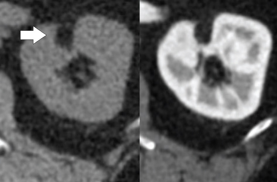 CT scan of a renal angiomyolipoma, before (left) and after (right) the administration of iodinated radiocontrast.